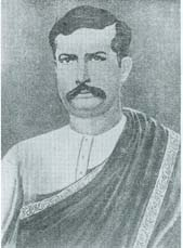 Sanjib Chandra Chattopadhyay ( 1838-1899) সঞ্জীবচন্দ্র চট্টোপাধ্যায় (১৮৩৪ - ১৮৯৯)